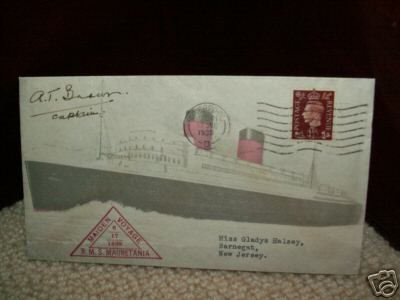 Envelope posted on date of maiden voyage of Mauretania 2 as signed by my grandfatehr, Capt AT Brown. Coincidentally my fathers 27th birthday & about the time he made off with my mother.